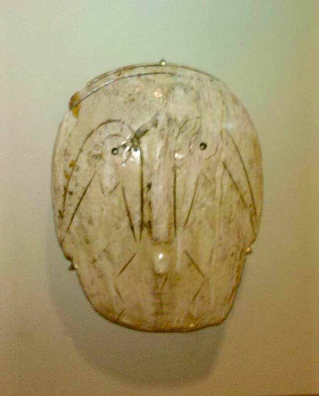 Shell gorget excavated from a Fort Ancient site in Ohio, United States. On display at the Southern Ohio Museum and Cultural Center in Portsmouth, Ohio.